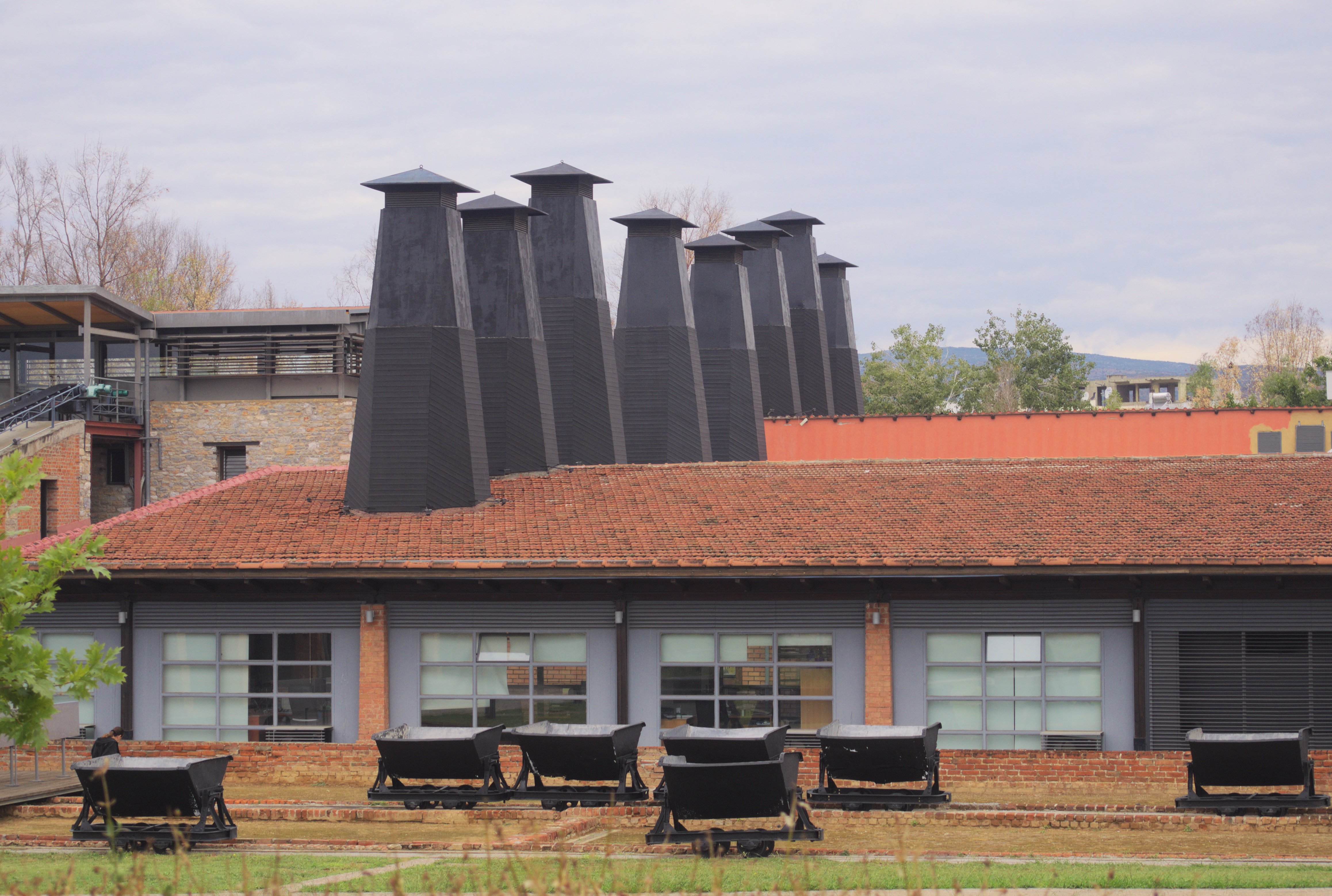 The brick factory of Tsalapatas at Volos. Now it has been transformed into a museum.